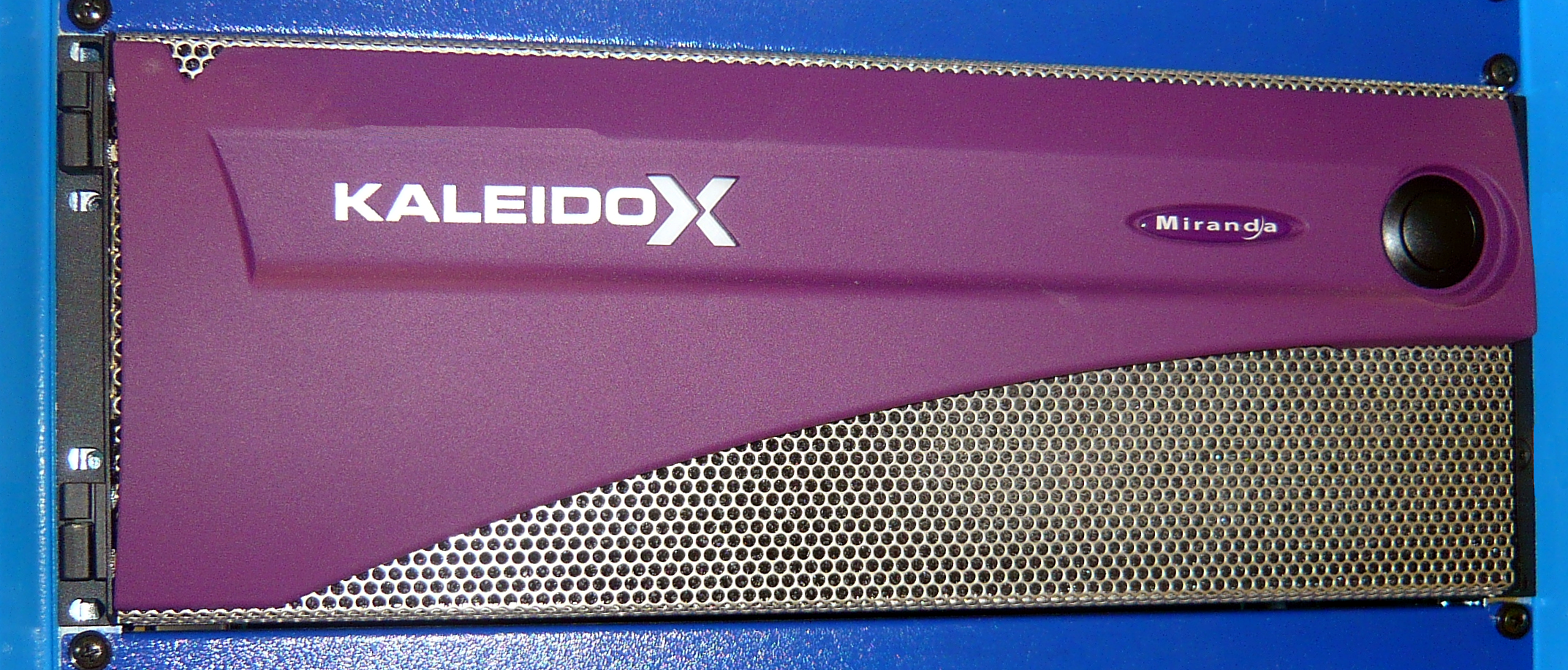 A Miranda Kaleido X Multidisplay processor. This is the 4U version.